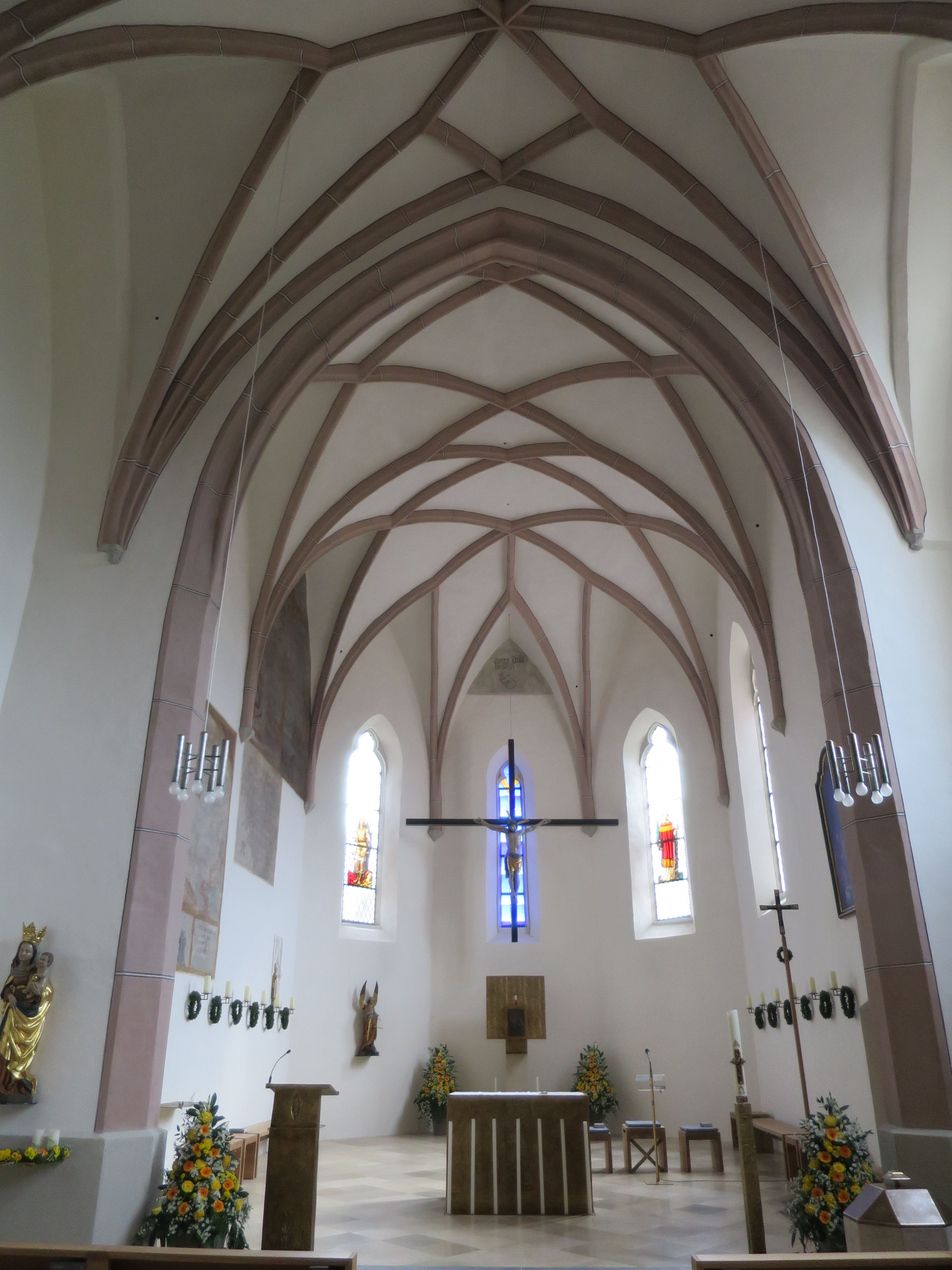 St. Michael, Eggenfelden-Kirchberg, Bavaria, Germany